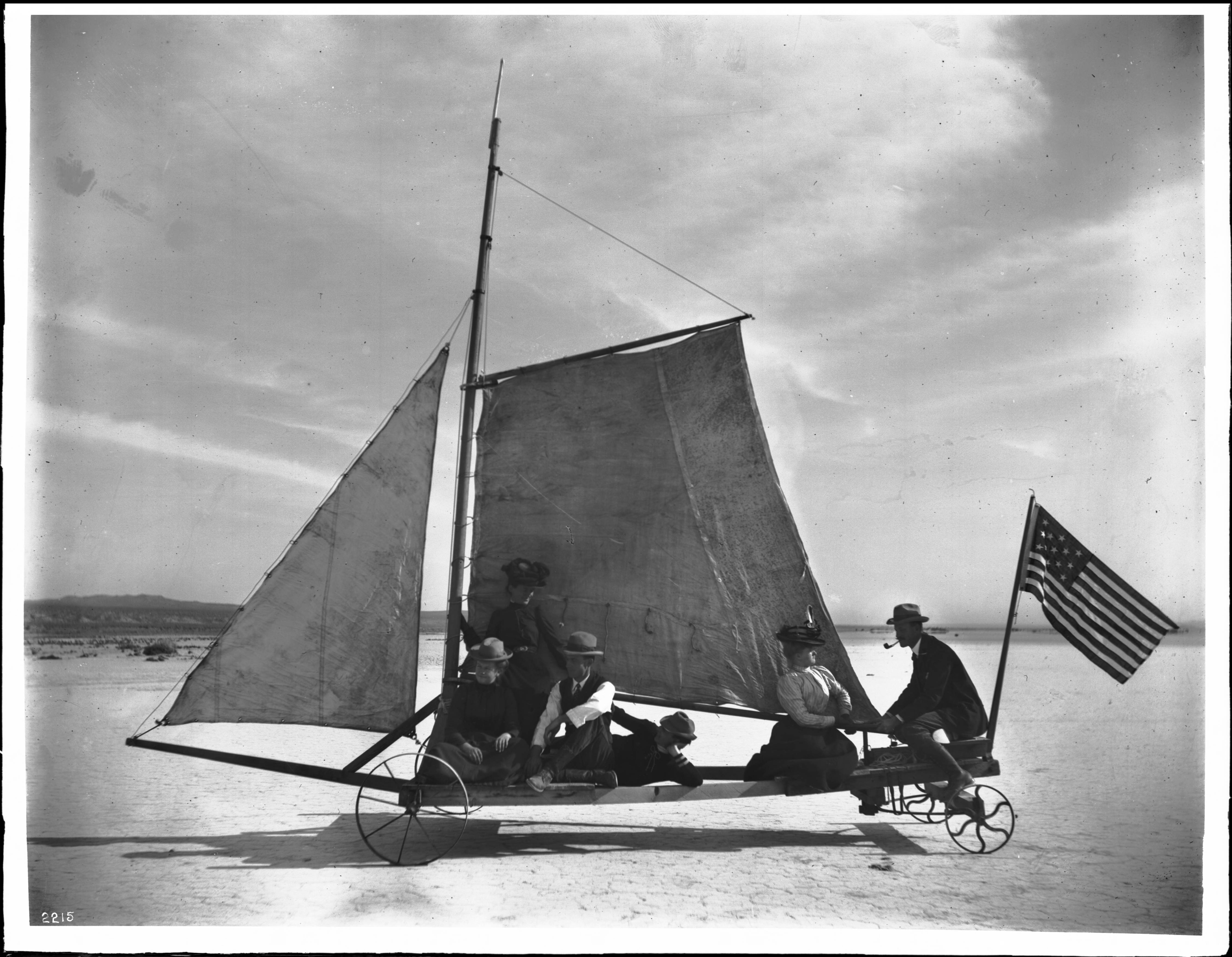 "The Desert Queen" sailing on the Mojave Desert, 1902 Photograph of the "Desert Queen" sailing on Rosamond Dry Lake in the Antelope Valley of the western Mojave Desert in 1902. (copyright John L. VonBlum "The Buffalo Sunday Morning News" Feb. 9, 1902 p11) The Desert Queen was built and used by miners to cross three miles of the dry lake. The sailing vehicle has four wheels, sails (spinnaker & mainsail) and a flag. Five passengers (three women, two men) sit on the flat skeletal platform while one man, smoking a pipe, operates the steering wheel. The vessel is headed to the left. Call number: CHS-2215 Photographer: Pierce, C.C. (Charles C.), 1861-1946 Filename: CHS-2215 Coverage date: 1905 Part of collection: California Historical Society Collection, 1860-1960 Format: glass plate negatives Type: images Part of subcollection: Title Insurance and Trust, and C.C. Pierce Photography Collection, 1860-1960 Repository name: USC Libraries Special Collections Accession number: 2215 Microfiche number: 1-121-10; 1-81-58 Archival file: chs_Volume148/CHS-2215.tiff Repository address: Doheny Memorial Library, Los Angeles, CA 90089-0189 Geographic subject (country): USA Format (aacr2): 3 photograph : photonegatives, glass photonegative, b&w ; 10 x 13 cm., 20 x 25 cm., 21 x 26 cm. Rights: Digitally reproduced by the USC Digital Library; From the California Historical Society Collection at the University of Southern California Subject (adlf): deserts Project: USC Repository Contributing entity: California Historical Society Date created: 1905 Publisher (of the digital version): University of Southern California. Libraries Format (aat): negatives (photographic); photographs Geographic subject (state): California Legacy record ID: chs-m5363; USC-1-1-1-5476 Access conditions: Send requests to address or e-mail given. Phone (213) 821-2366; fax (213) 740-2343. Subject (file heading): Los Angeles County -- Antelope Valley Subject (lcsh): Vehicles; Deserts; Flags